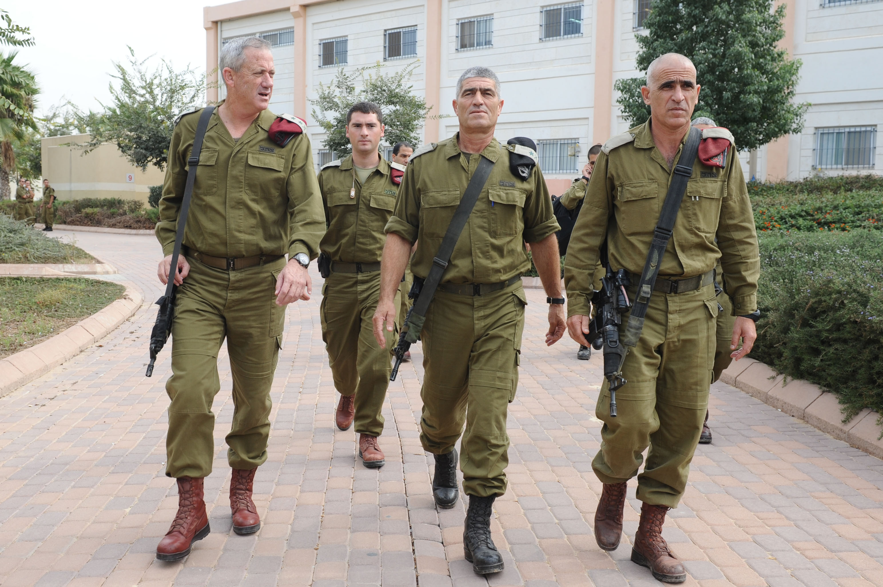 COS Lt. Gen. Benny Gantz, Maj. Gen. Tal Russo and Brig. Gen. Yossi Bachar visiting sites where rockets hit in Southern Israel. Photographer: Sgt. Shay Wagner The Israel Defense Forces Facebook • blog • Twitter